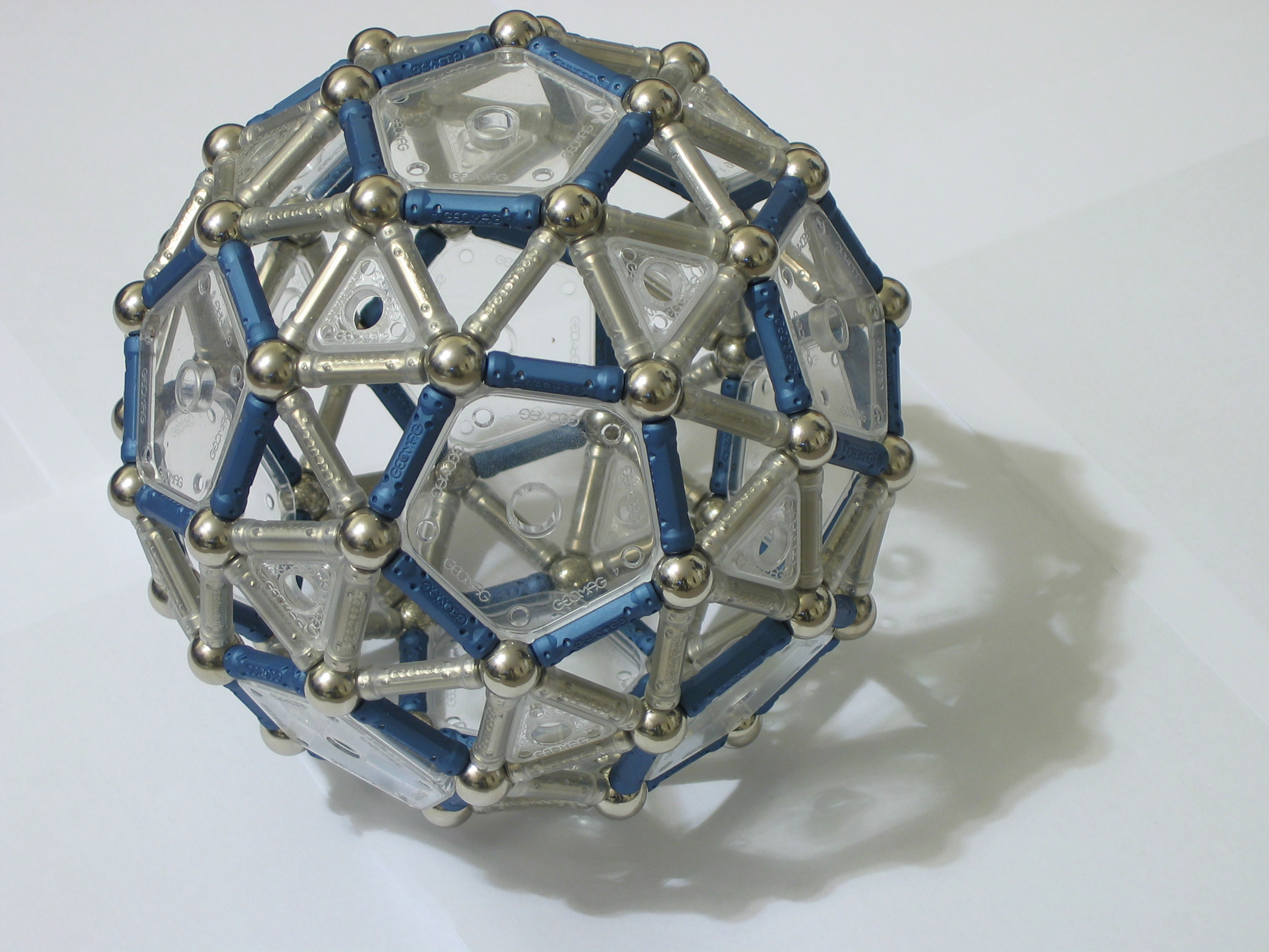 This Archimedean Solid, a snub dodecahedron is constructed from Geomag.